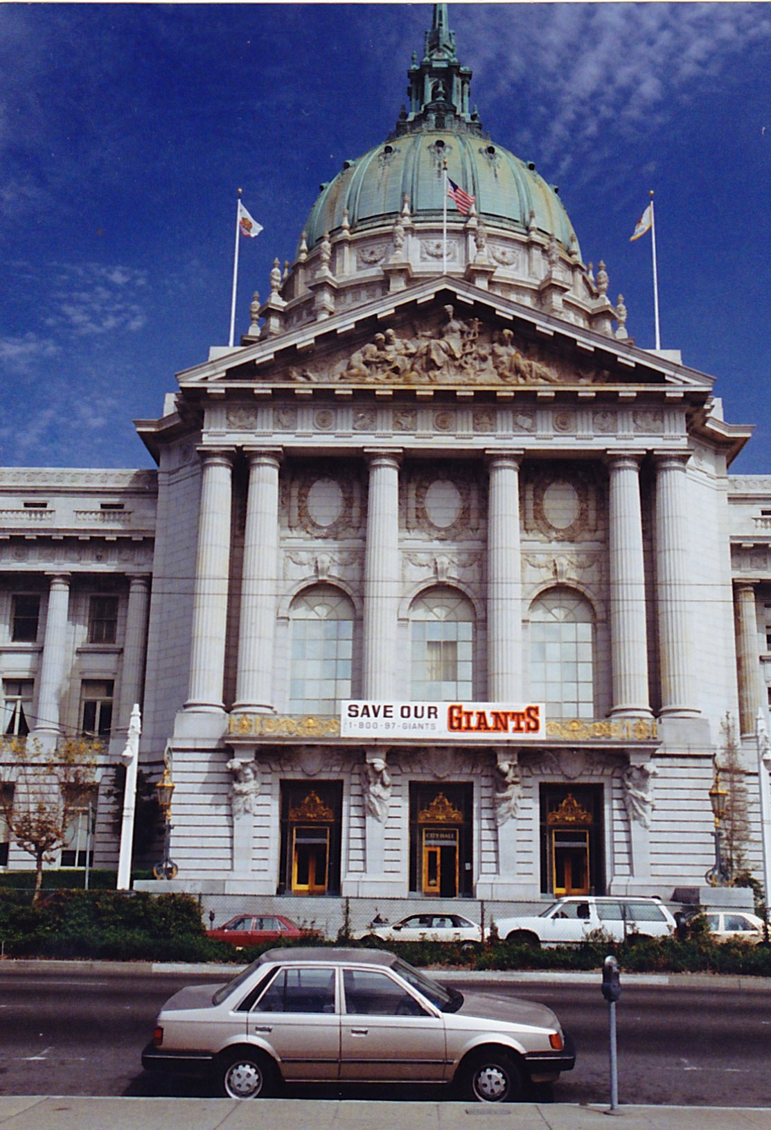 San Francisco City Hall, with a banner saying "Save Our Giants 1-800-97-GIANTS". California, USA. 21 June 2011 (original upload date)